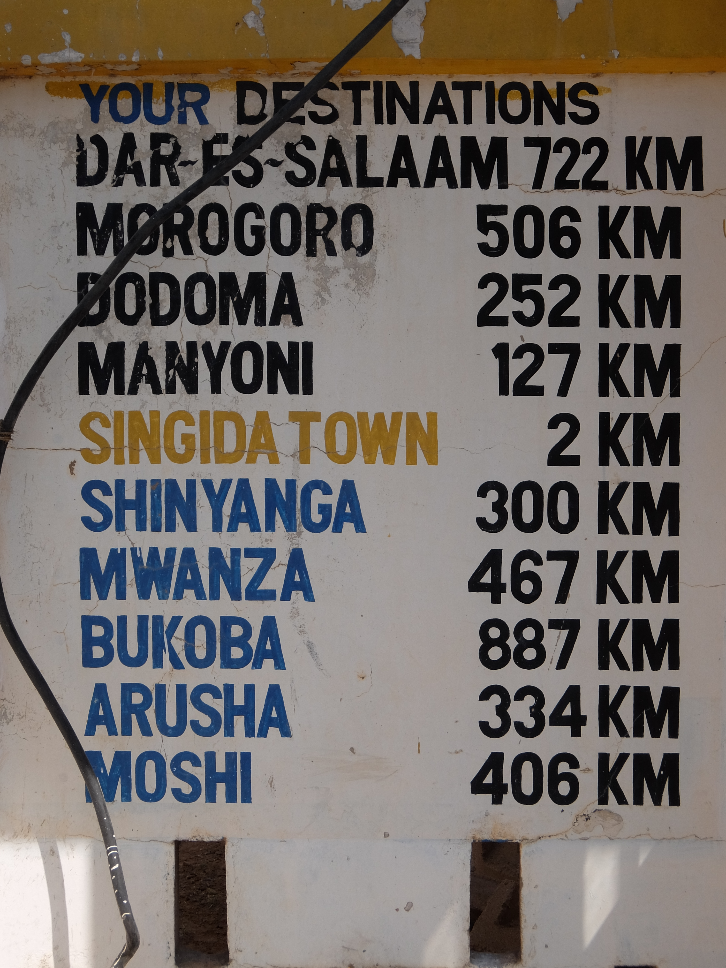 Distance from Singida Town to other cities in Tanzania. Picture taken at petrol station just outside of Singida Town coming from Nzega.